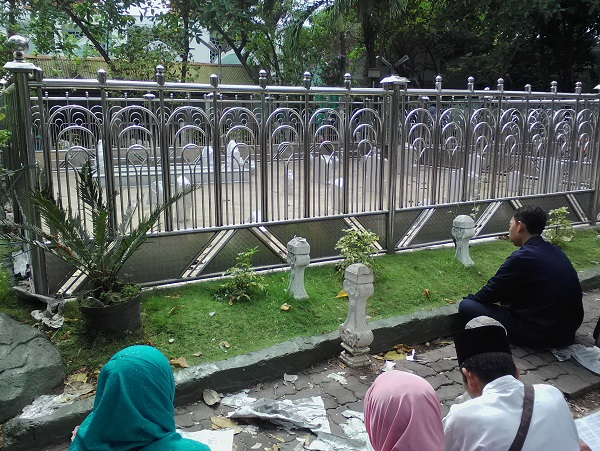 Grave of Sunan Ampel in Surabaya, East Java, Indonesia